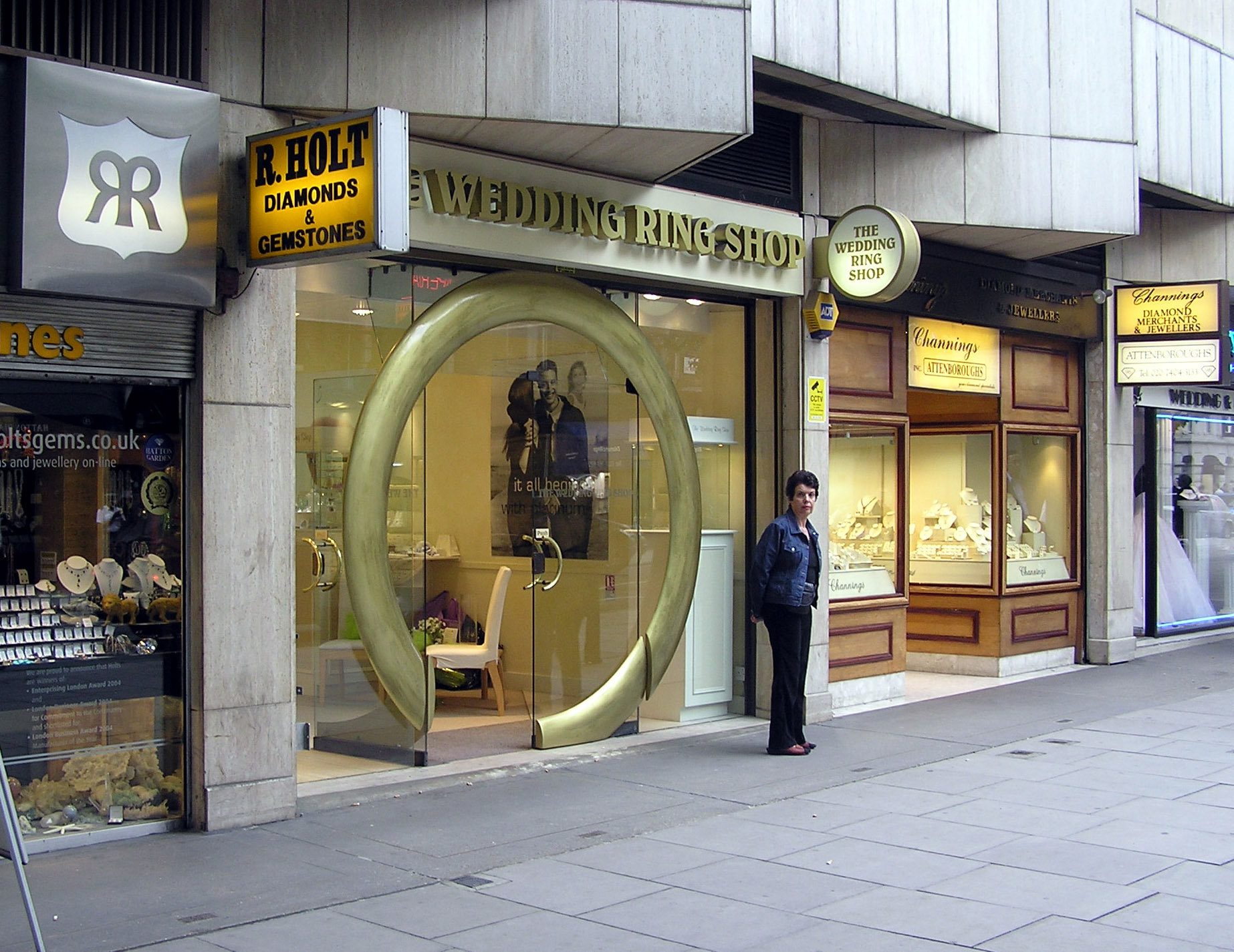 A ring shop in Hatton Garden. Taken by Adrian Pingstone in June 2005 and released to the public domain.